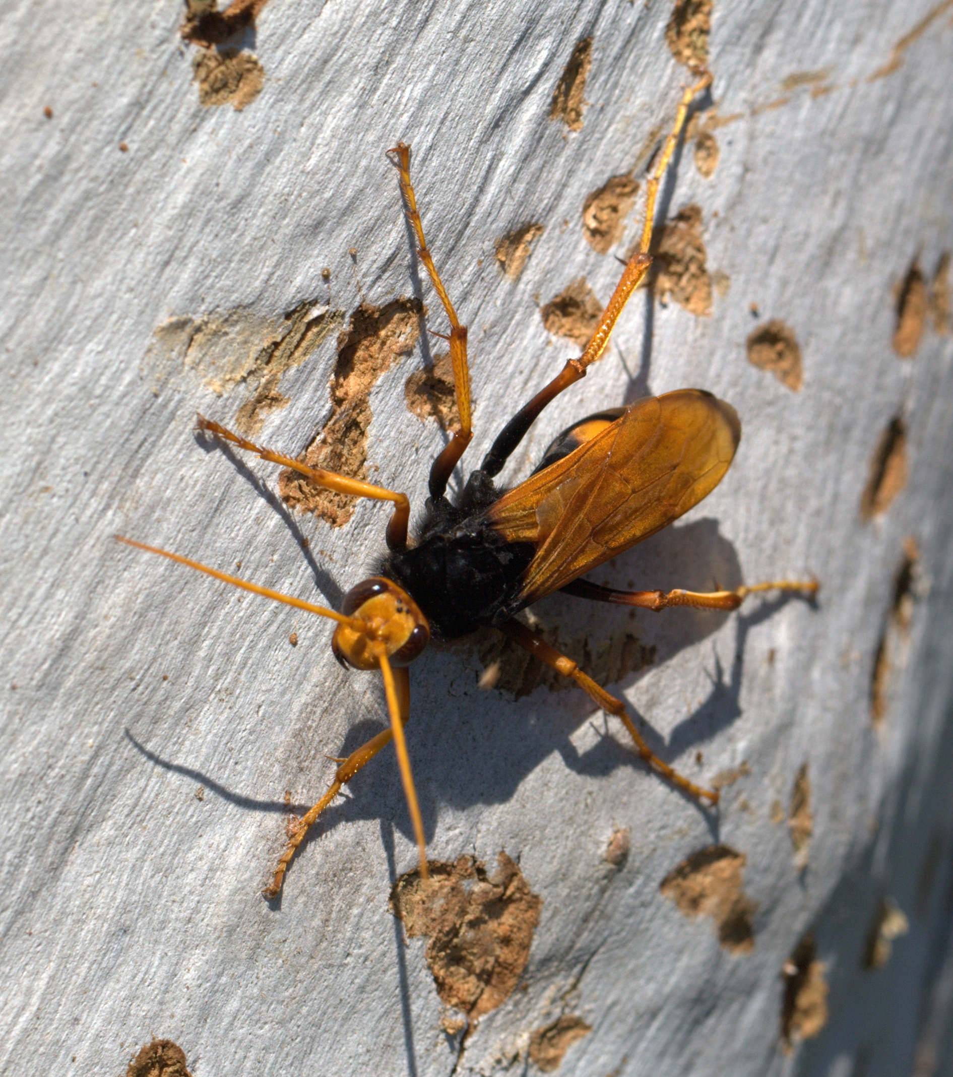 A spider wasp (Cryptocheilus bicolor) at St John's Ashfield in Sydney, NSW, Australia.